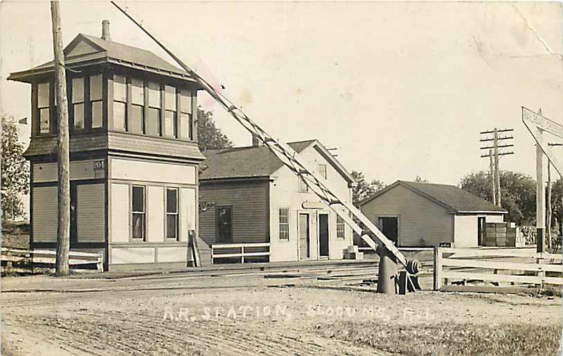 1909 divided back postcard of Slocums station